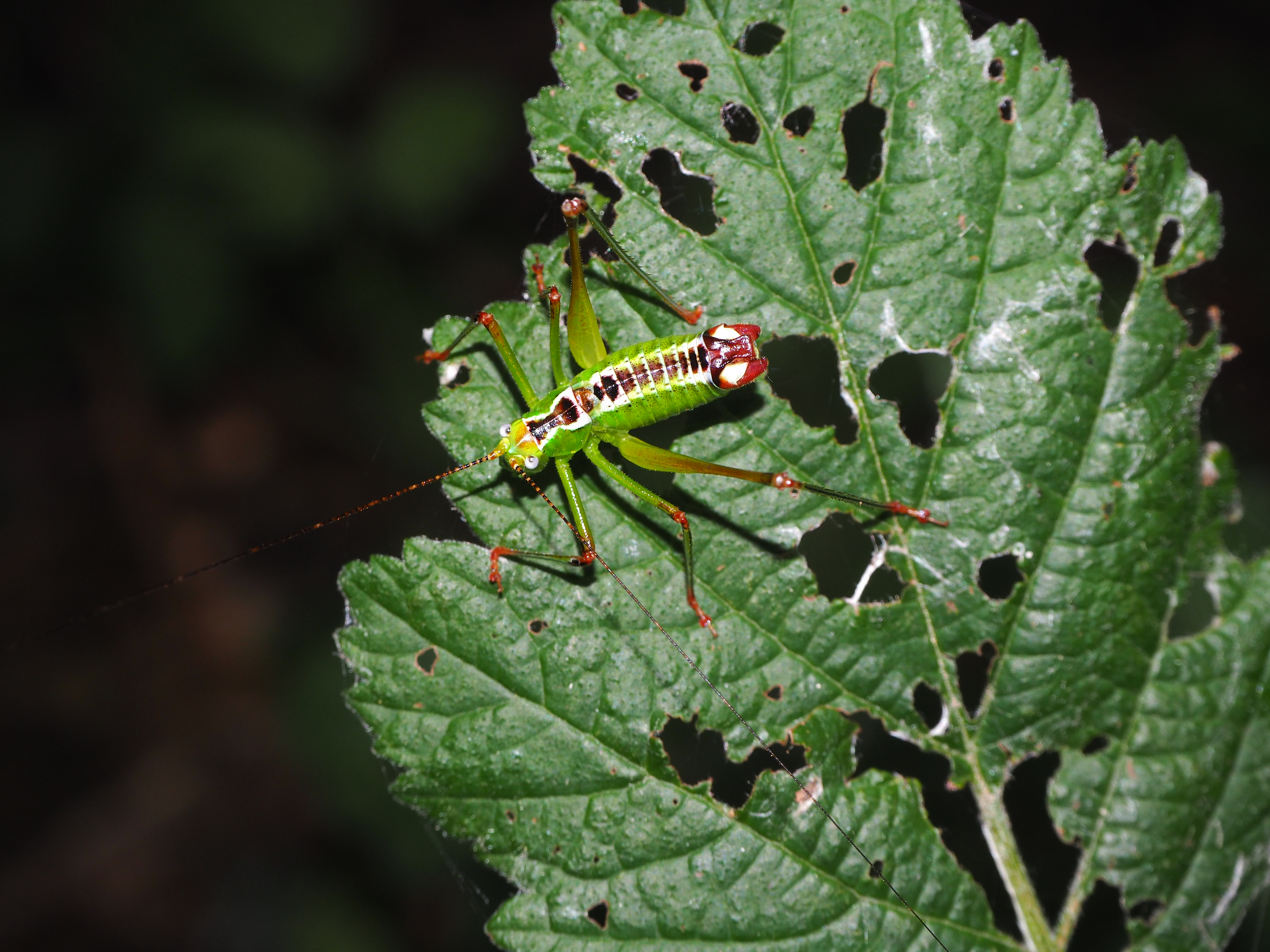 Andreiniimon nuptialis from Bosco di Porporana